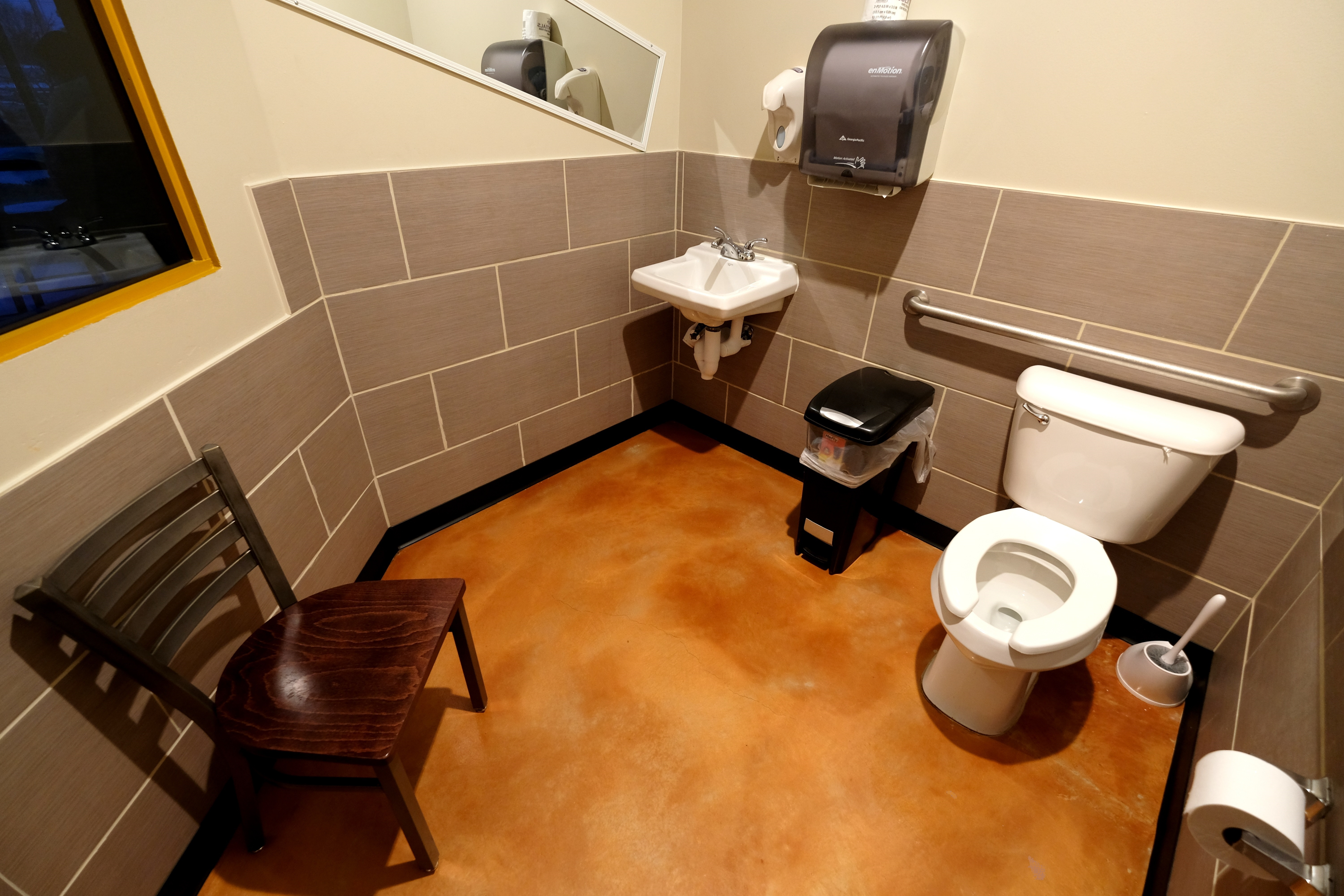 Chic City Bites restaurant bathroom that includes (clockwise, from left), a chair to place belongings, a two-way mirror to see what's going on in the dining room, a standard mirror, a sink, a liquid soap dispenser, a hands-free paper towel dispenser, a foot-operated trash can, a safety handrail, a toilet, a toilet brush, and a toilet paper roll.